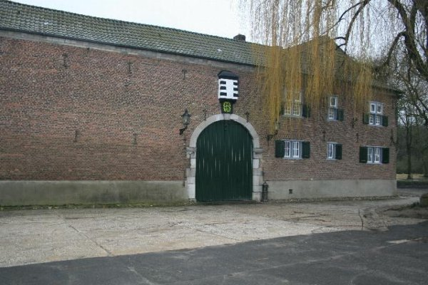 Cultural heritage monument No. 2 in Selfkant